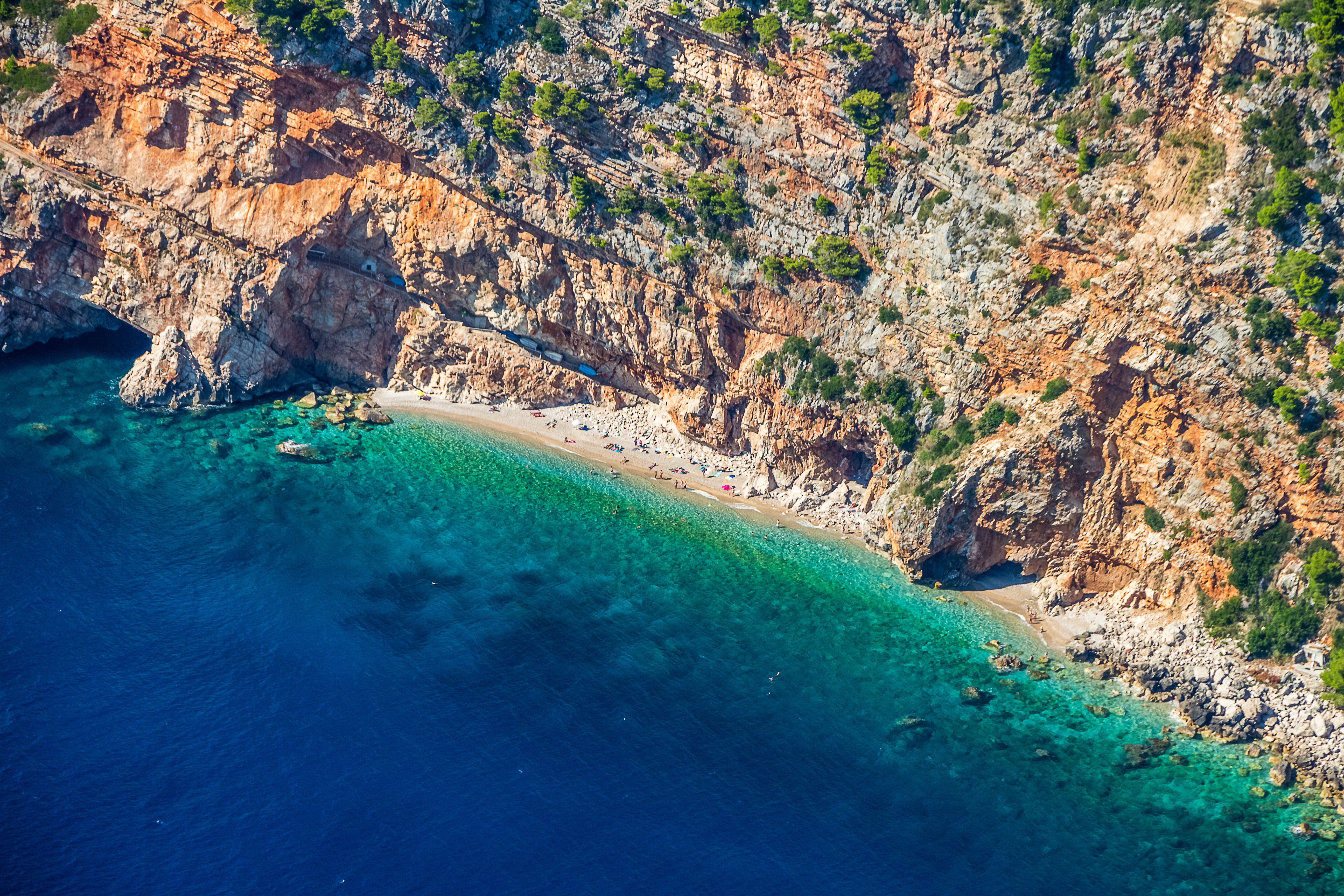 Pasjača, an adventures' paradise beach near Popovići, Konavle Region. One of the best and least known beaches in Croatia. Shot from Airbus A319 cockpit just before landing at Dubrovnik Airport, Croatia.